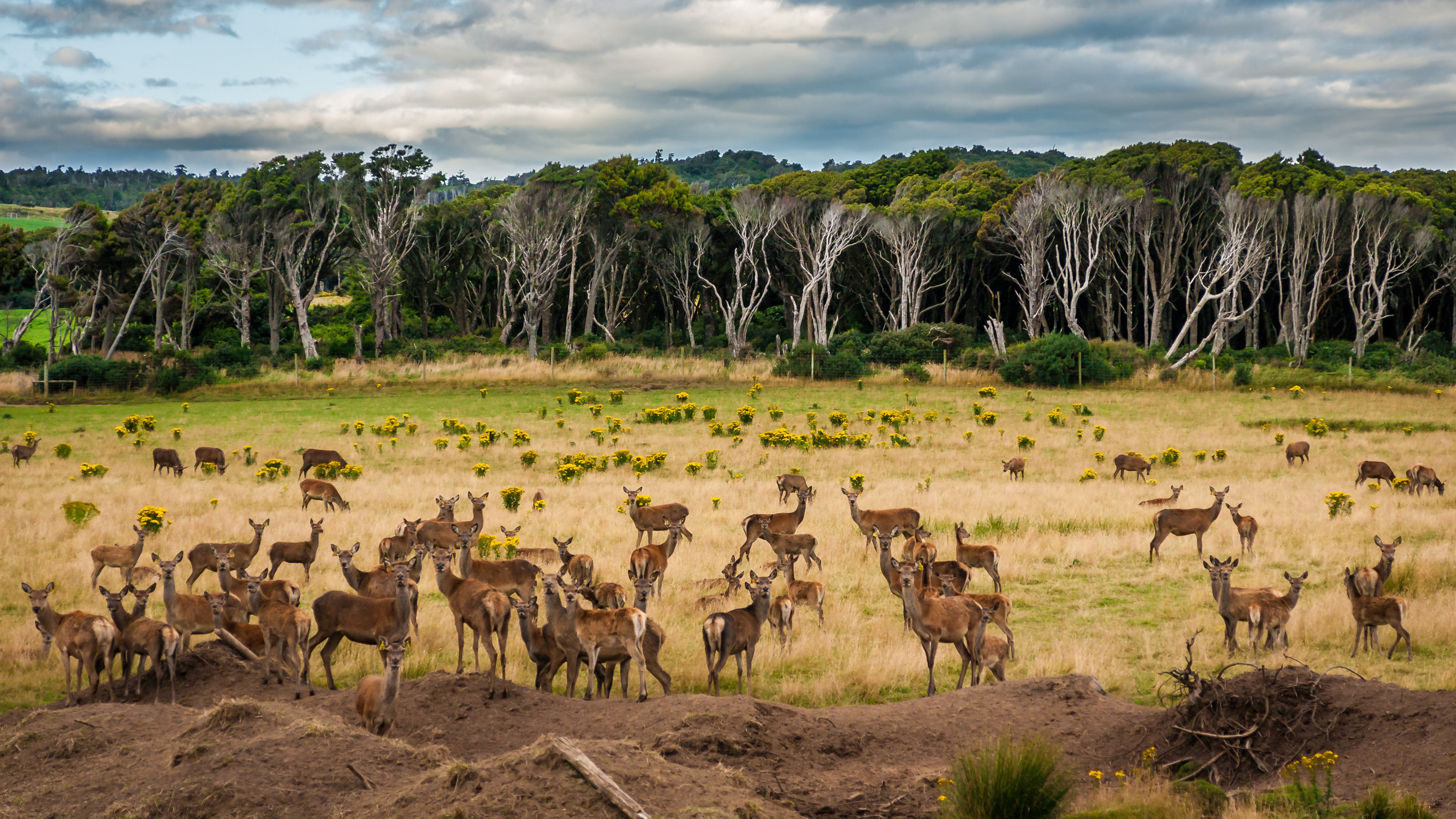 I took this one from my car as I didn't dare to go outside and risk all the deer running away. The scene looked surreal, almost like a painting, even in reality.